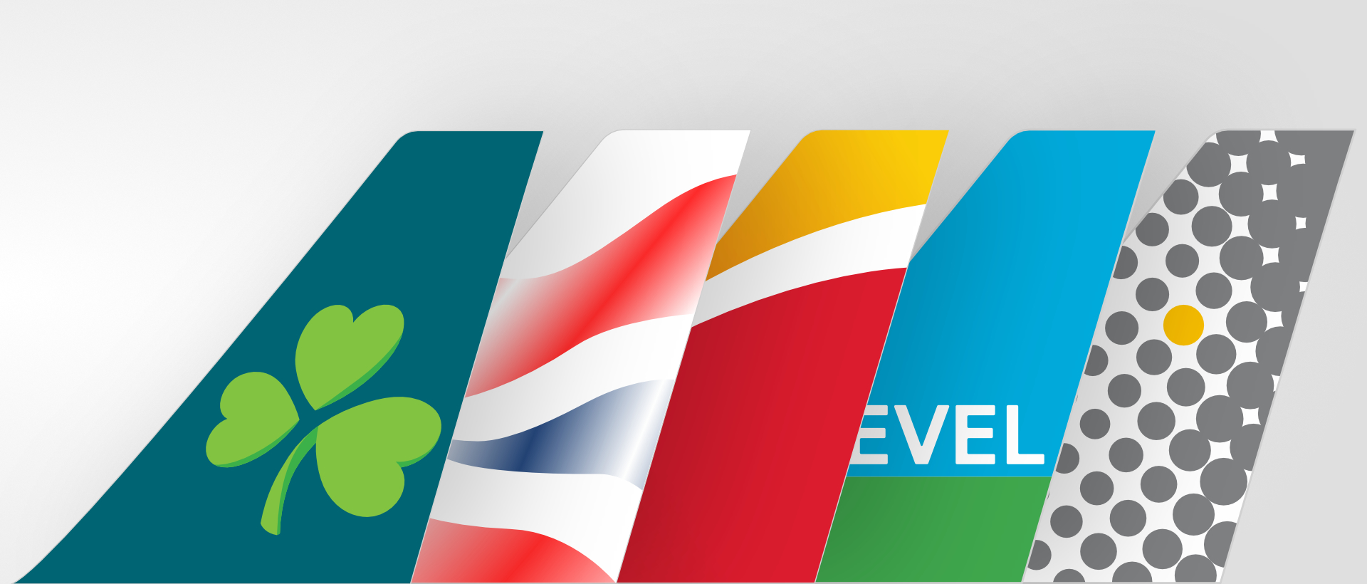 From left: Aer Lingus, British Airways, Iberia, Level, Vueling